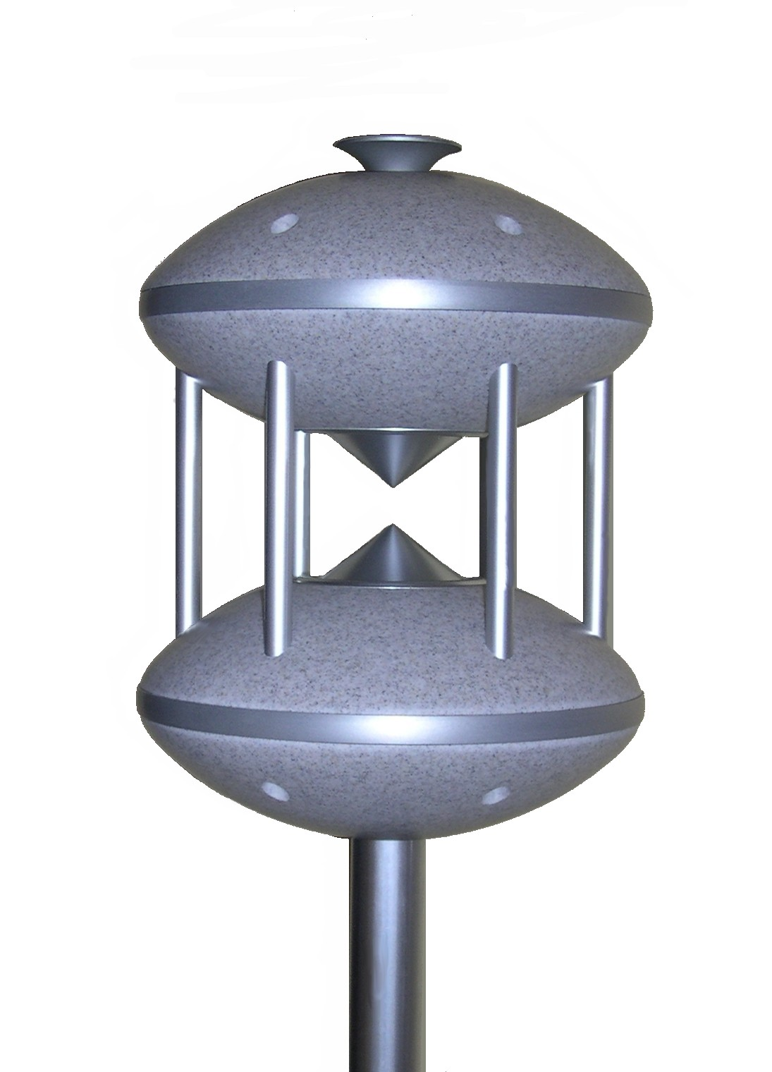 Omnidirectional speaker 360°